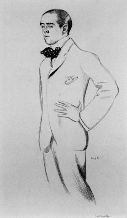 Max Beerbohm, William Rothenstein's lithographic portrait, 1893, from